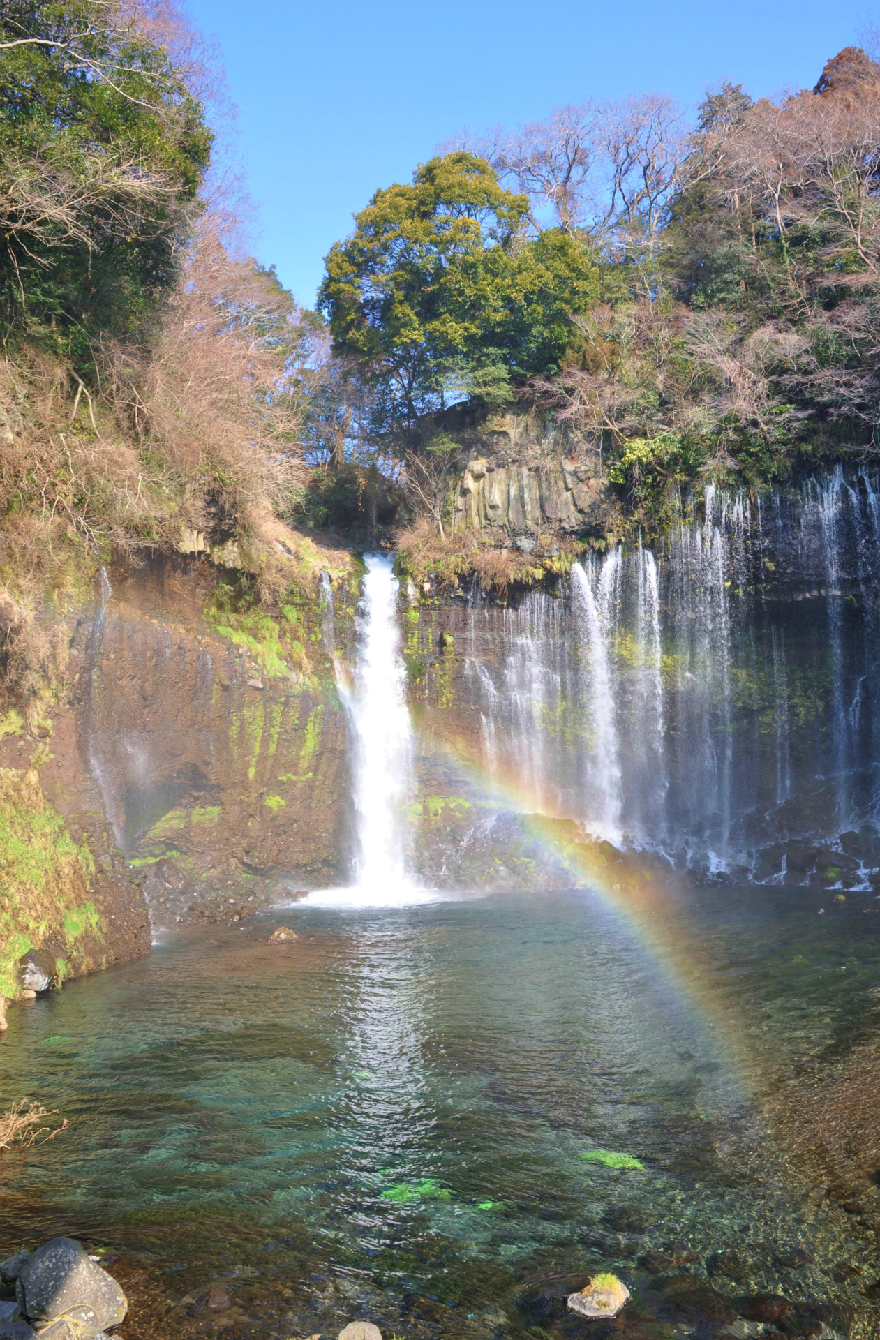 Shiraito waterfalls with rainbow